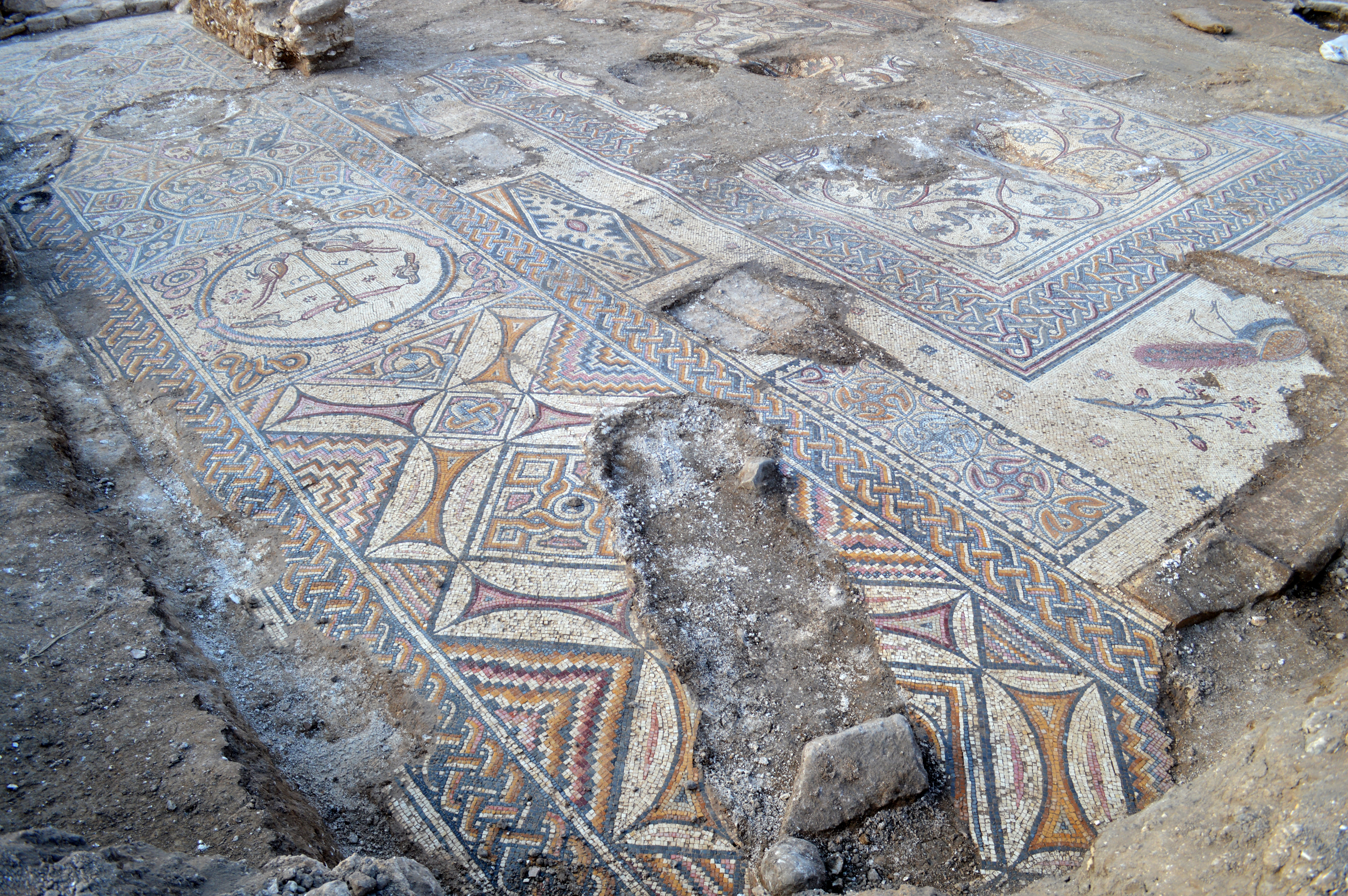 Byzantine Basilica Mosaic near Aluma, Southern Israel